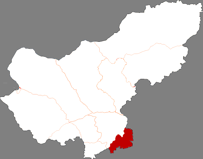 Locator map of Duolun County in Xilingol League, Inner Mongolia, China